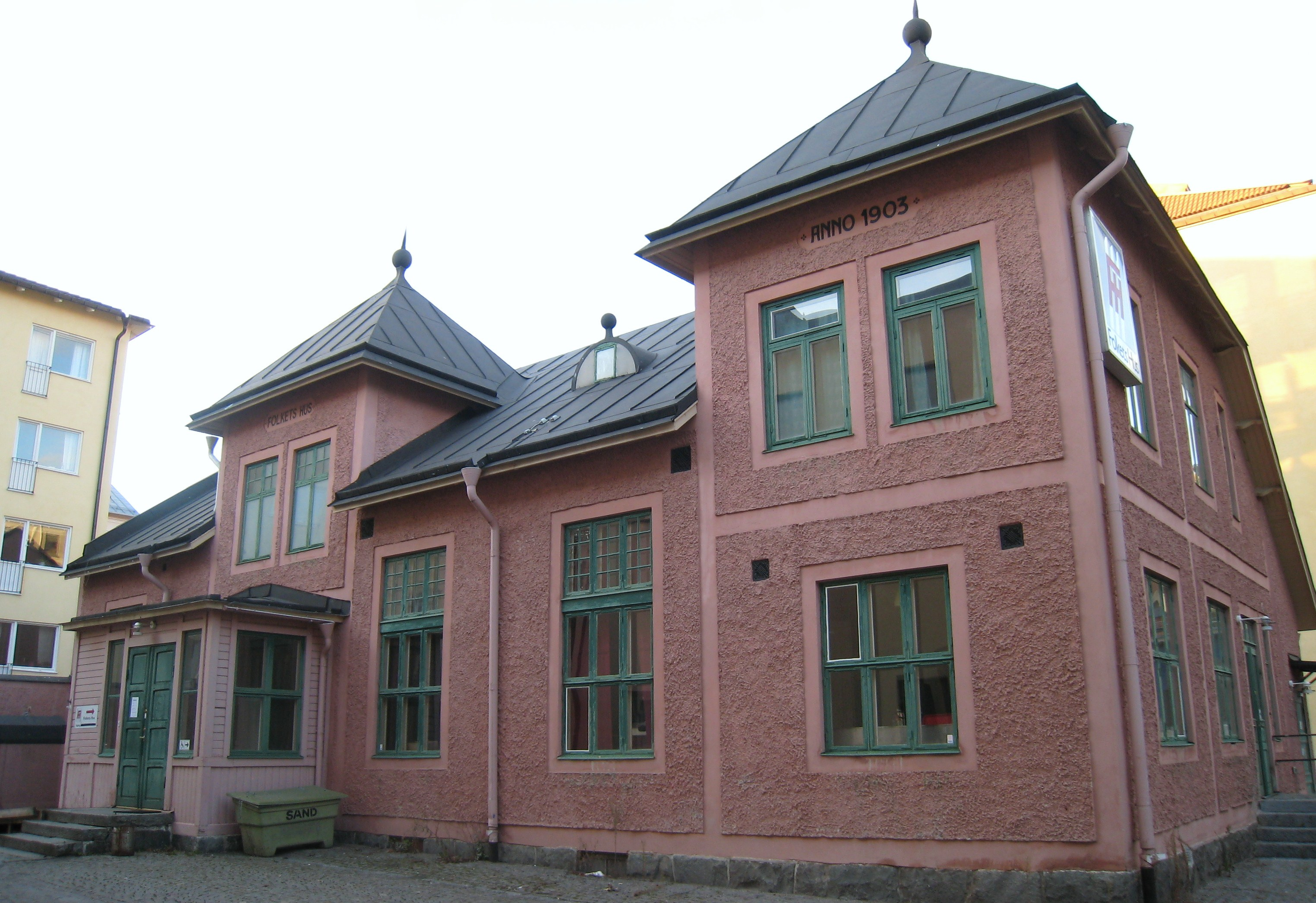 The "Folkets hus" community building in Sundbyberg, Sweden